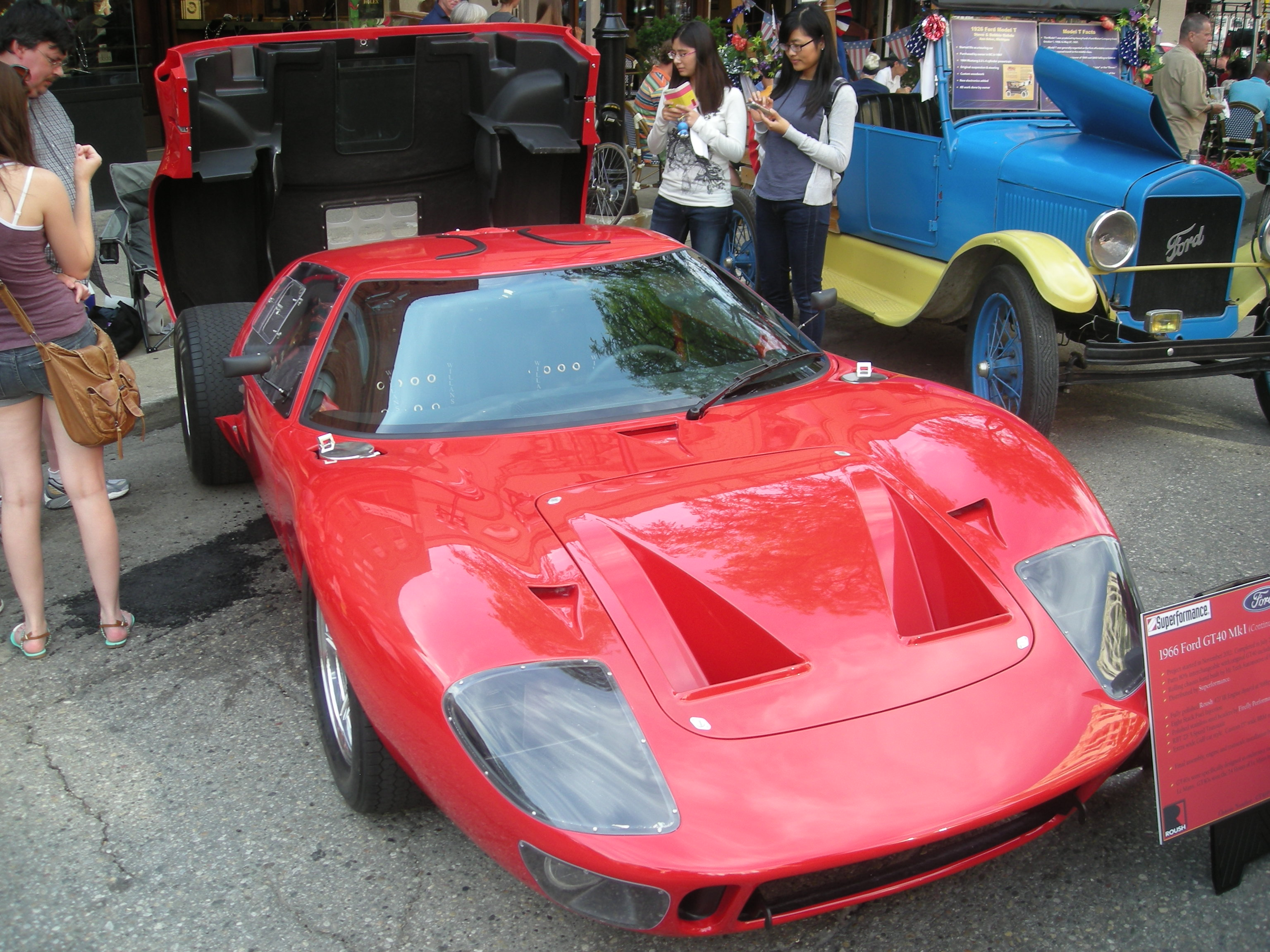 A 1966 Ford GT40 Mk I replica at the 2014 Rolling Sculpture Car Show in Ann Arbor, Michigan (United States).